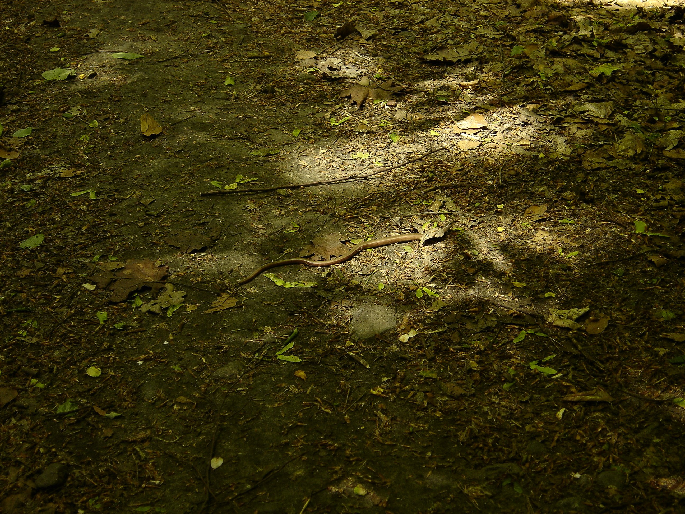 Slowworm (Anguis fragilis) taking a sunbath on forest way; picture taken in the Dresdner Heide